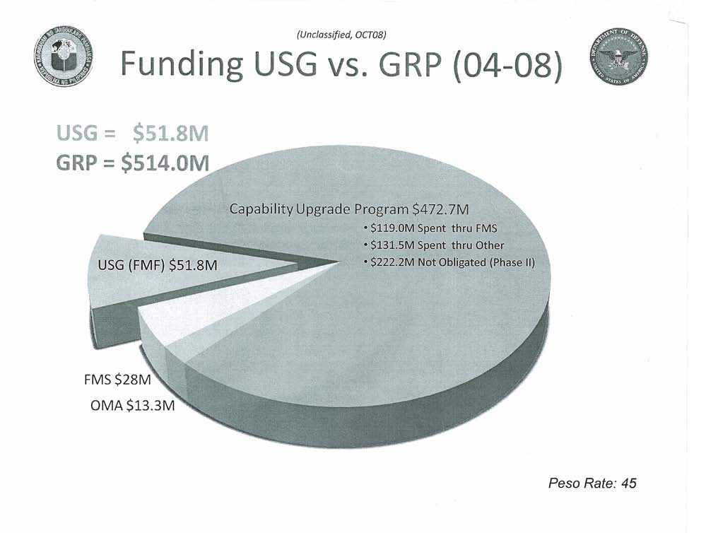 Steps of the Philippines Defense Reform Program